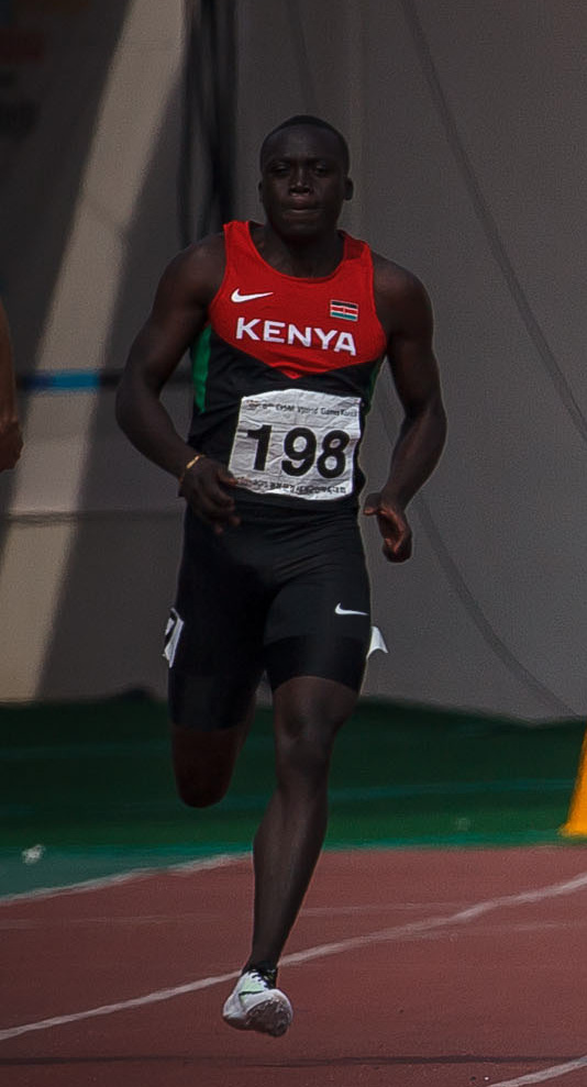 Mike Mokamba Nyang'au at the 2015 Military World Games . Foto: Sgt Johnson Barros